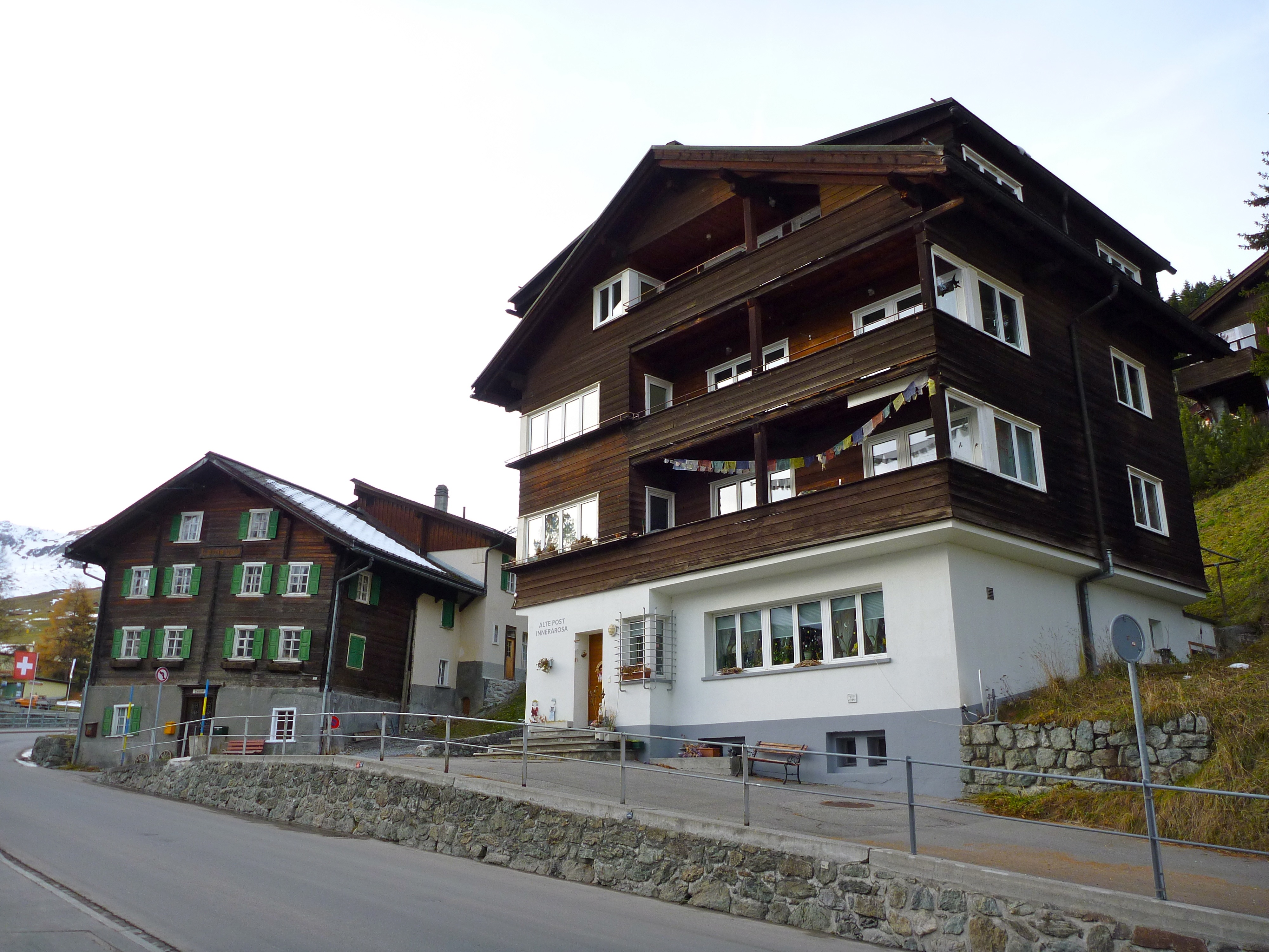 Leinegga house (left) and old post building in Inner-Arosa